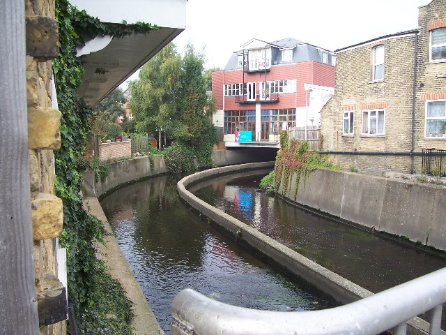 River Wandle, Strathville Rd, SW18. From a road bridge, with some new flats built over the river. I'm not sure why its split in two?